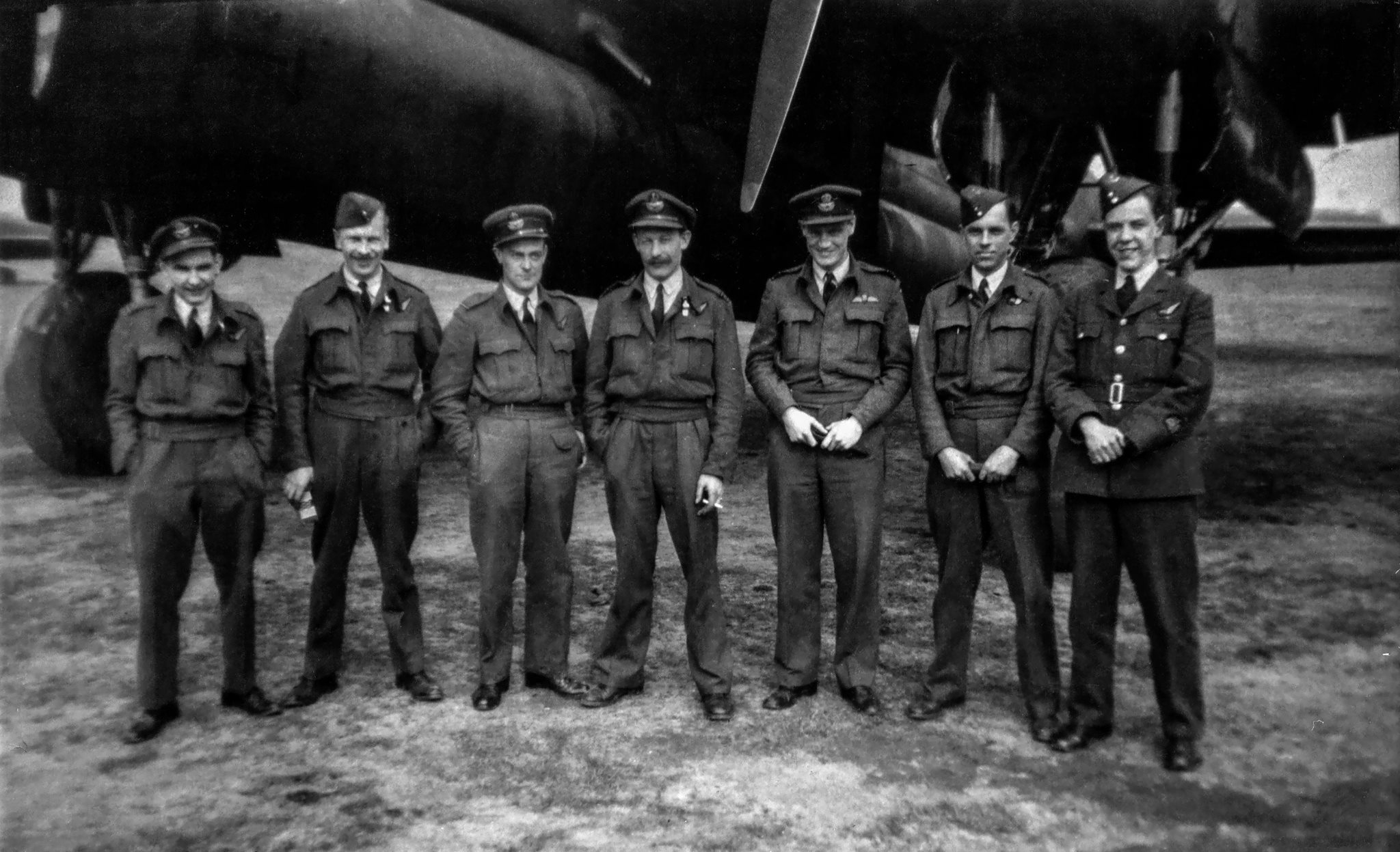 Photographer unknown, but the image was taken at RAF Mildenhall between 17 February 1944 (when the aircraft was delivered) and 8 June 1944 (when the aircraft was shot down). The image shows the crew of the AVRO Lancaster (LM575 LS-H) heavy bomber standing in front of their aircraft. From left: F/O Ken Chapman, F/O Gerry Musgrove, F/O Lionel George, Fl/Lt John Marpole, Sqn Ldr Phil Lamason, F/O Tommy Dunk, W/O Robbie Aitken.